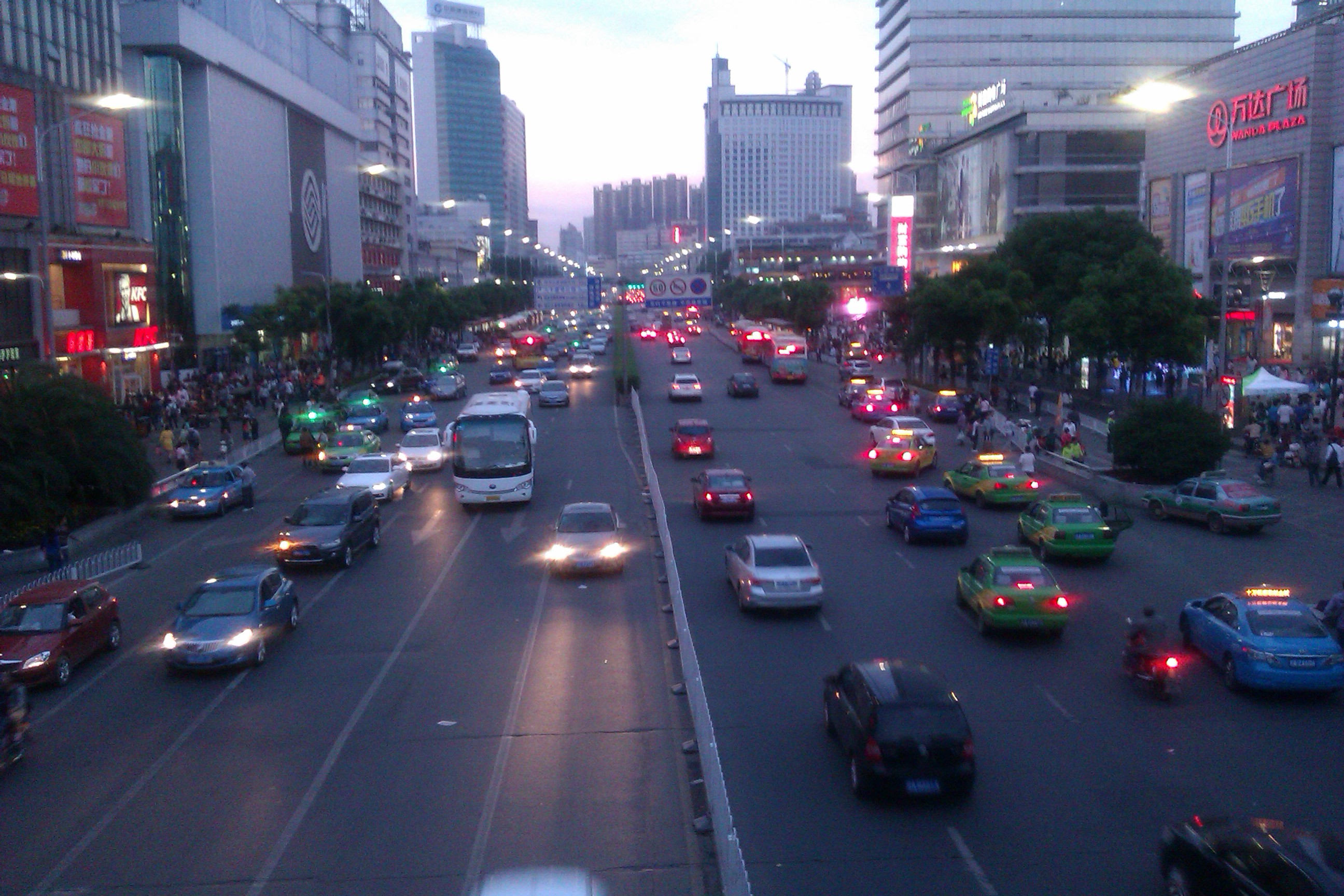 Bayi Avenue, Nanchang